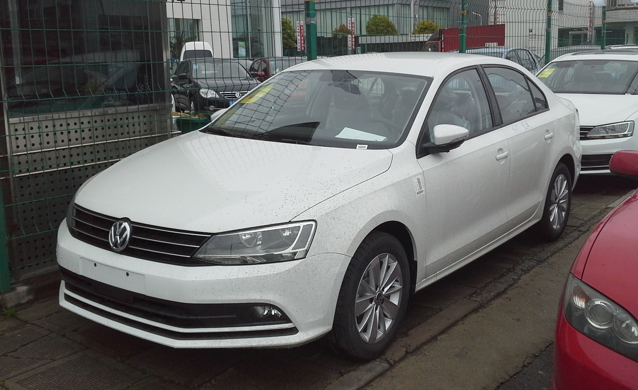 Volkswagen Sagitar II facelift photographed in Shanghai, China.